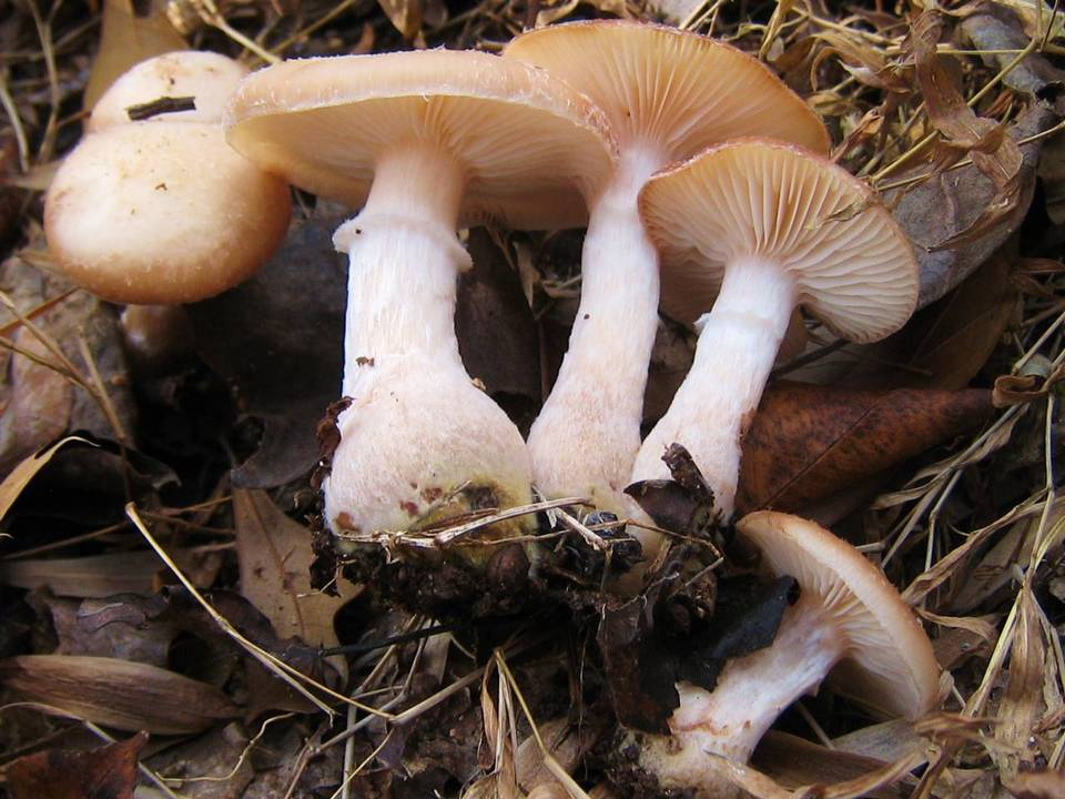 Armillaria gallica